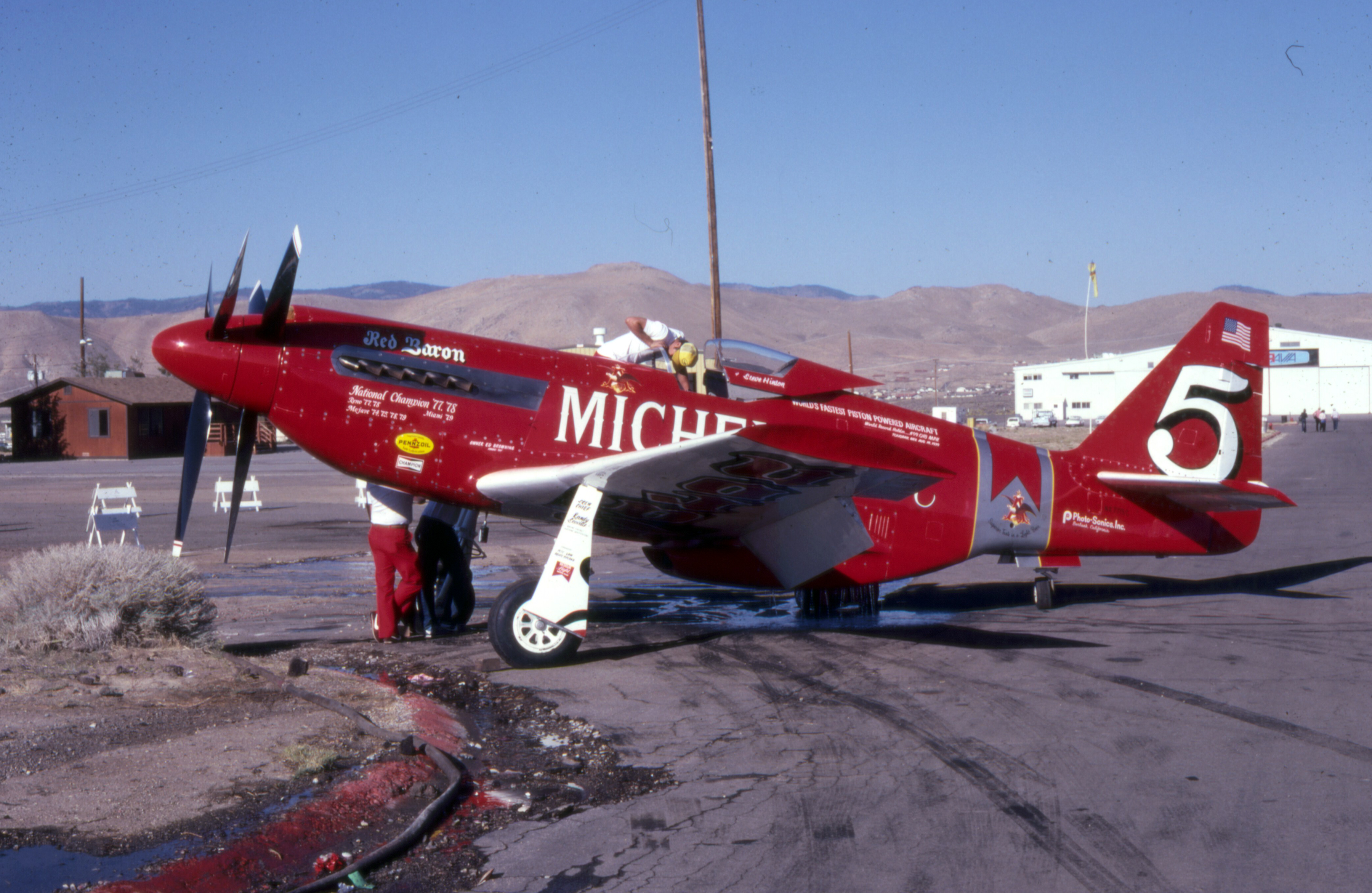 The Red Baron Mustang, photographed by myself in the Reno pits the day before its crash.